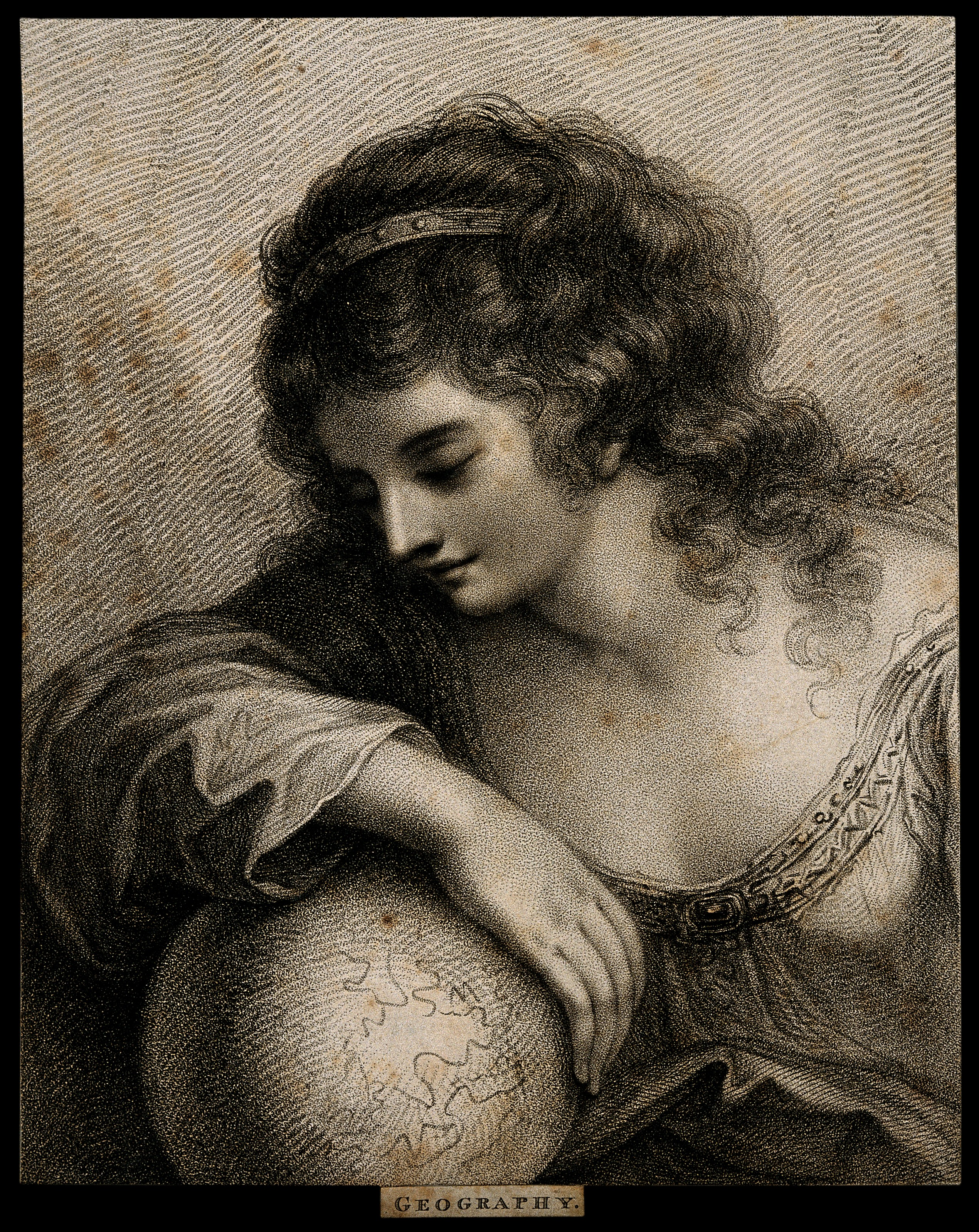 A female figure resting her arm on a globe; representing geography. Stipple engraving. Iconographic Collections